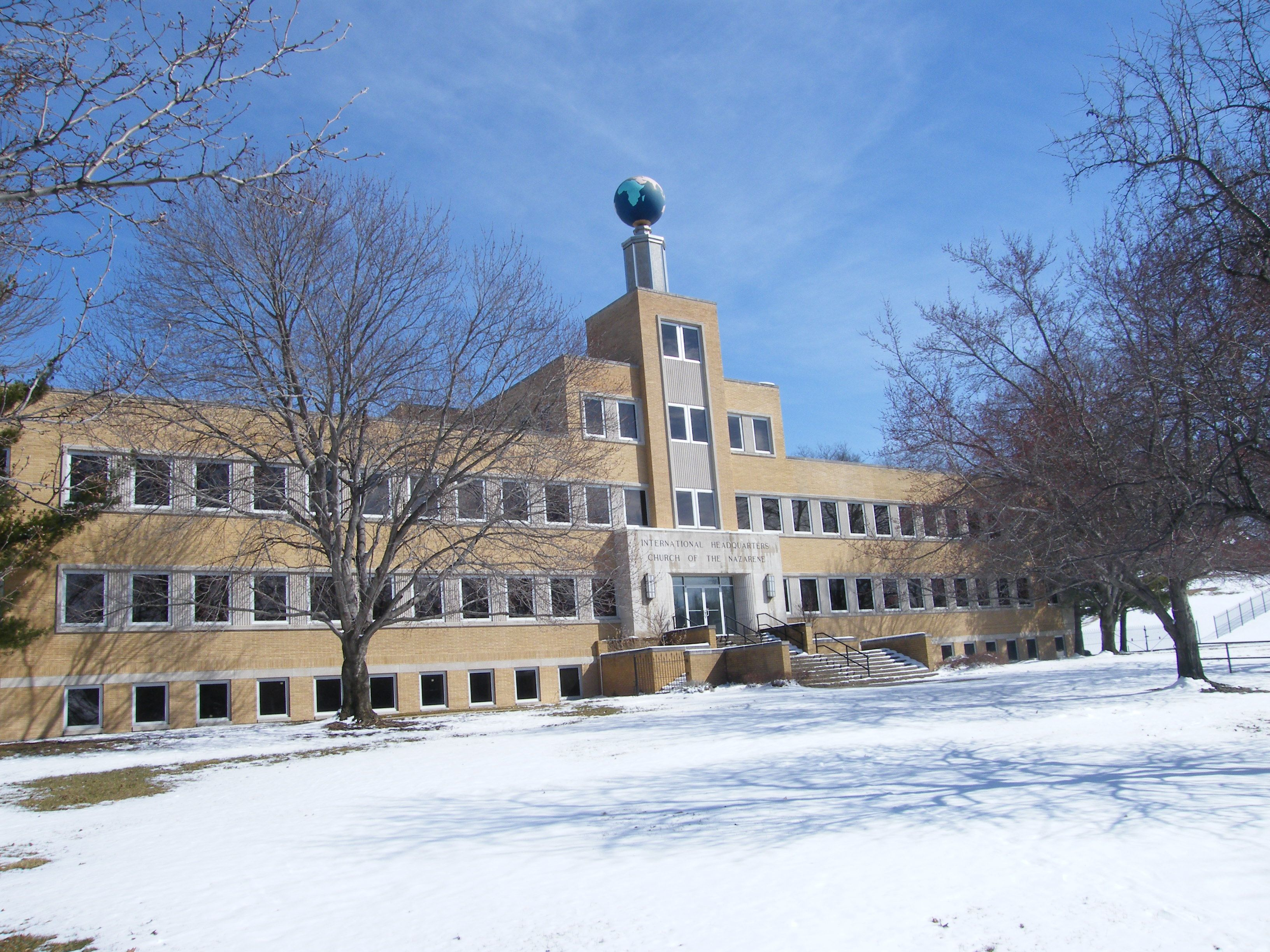 Former headquarters of Church of Nazarenne in Kansas City